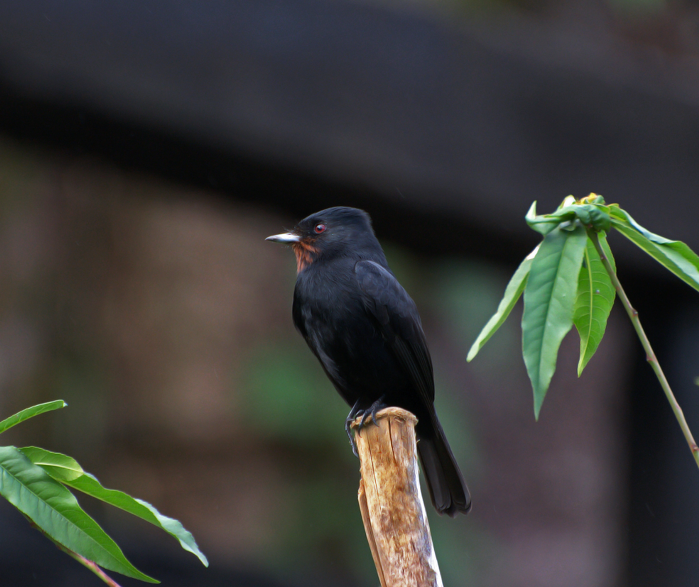 A Velvety Black-tyrant in Parque Nacional do Itatiaia, Rio de Janeiro, Brazil.